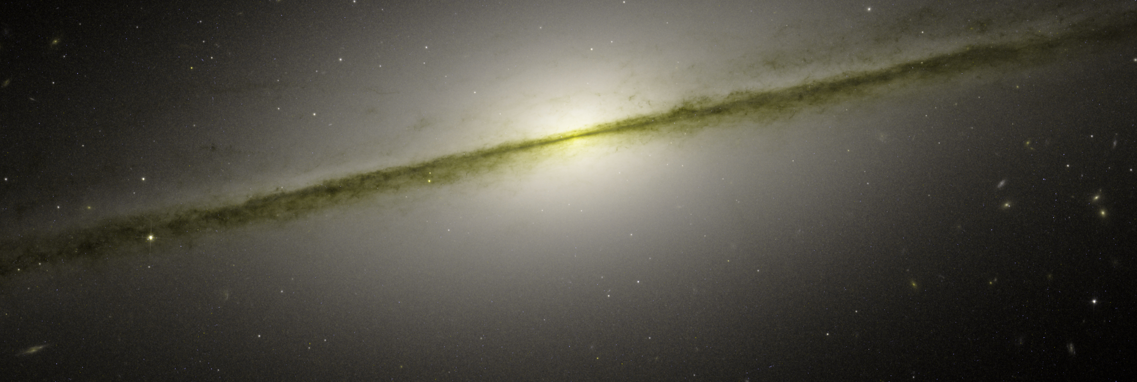 NGC 7814 galaxy by Hubble space telescope